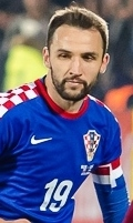 Milan Badelj